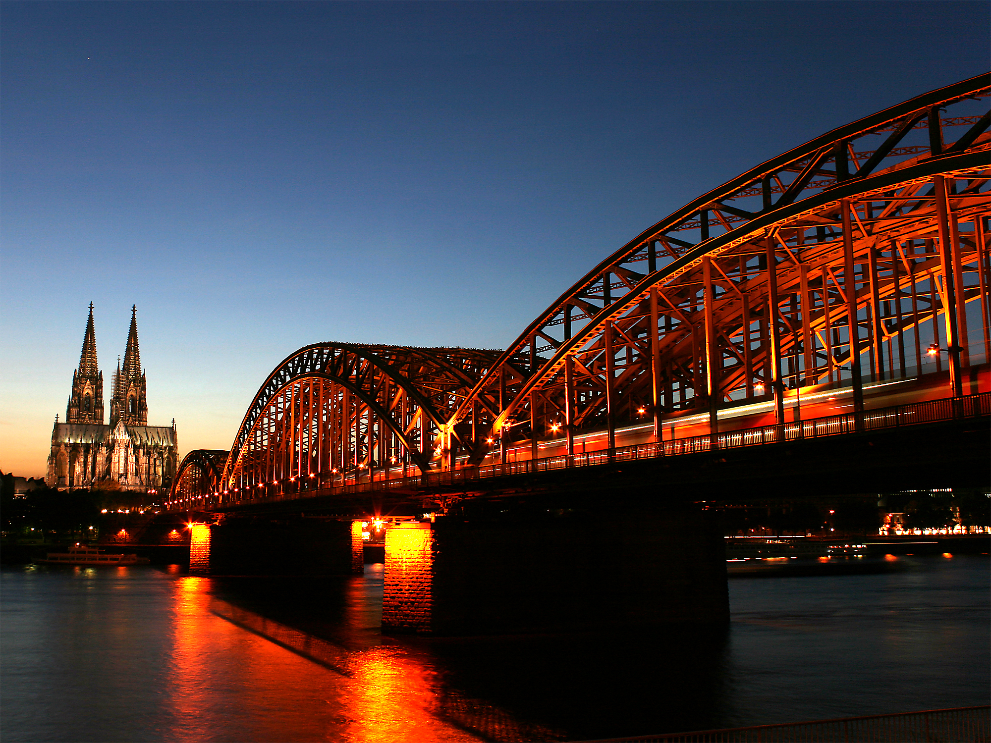 "Hohenzollernbrücke" with the Cologne Cathedral in the background